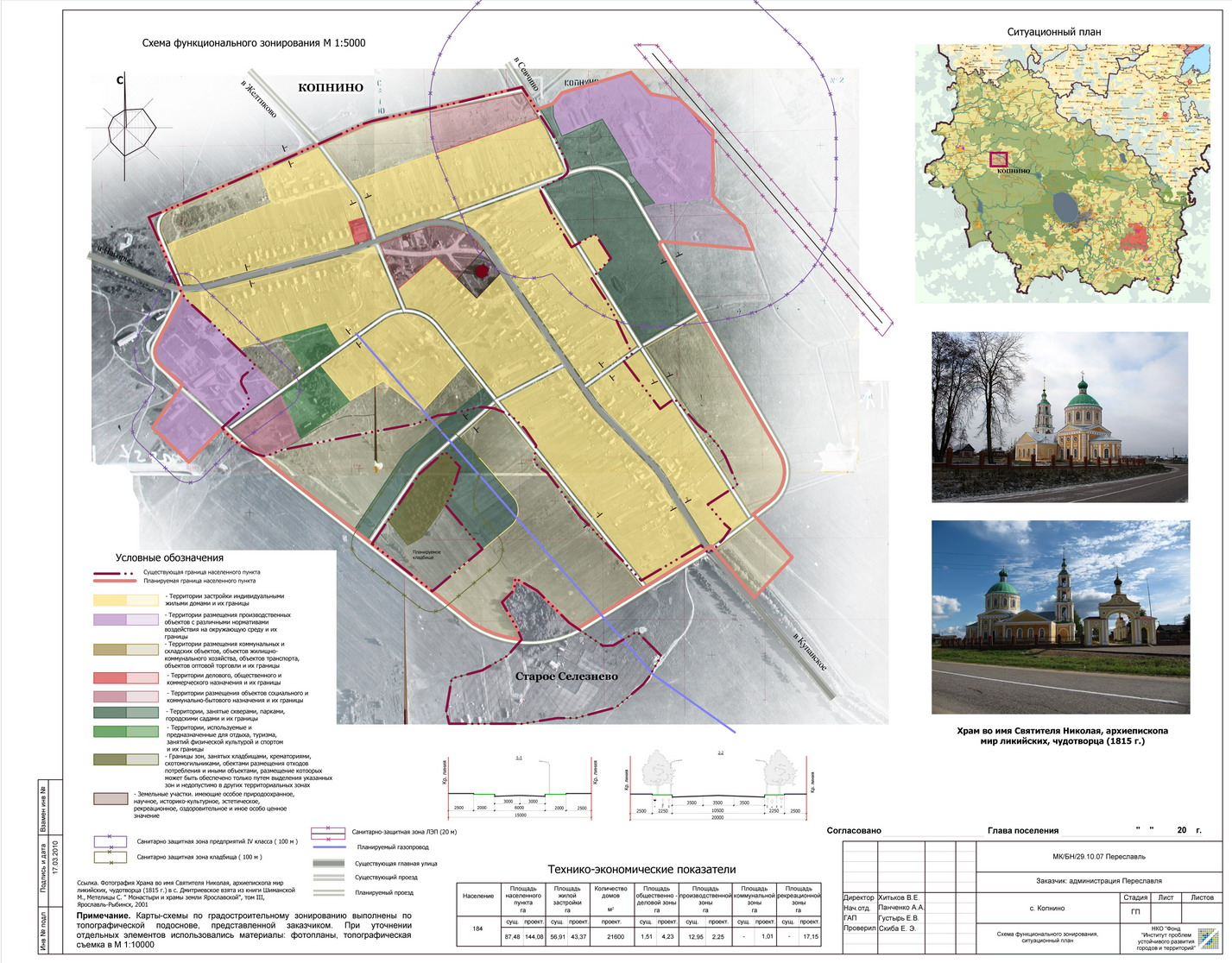 General plan of Nagorye rural settlement (Yaroslavl Oblast) 2008. Kopnino.